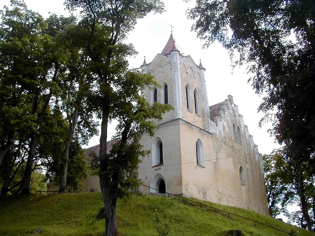 Aizpute Saint John Evangelical Lutheran ChurchLatviešu: Aizputes Svētā Jāņa evaņģēliski luteriskā baznīca